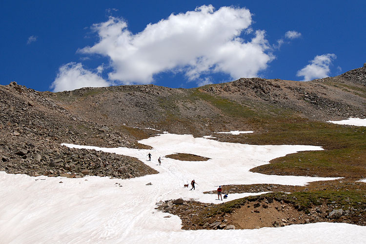 Hiker near the summit of La Plata peak